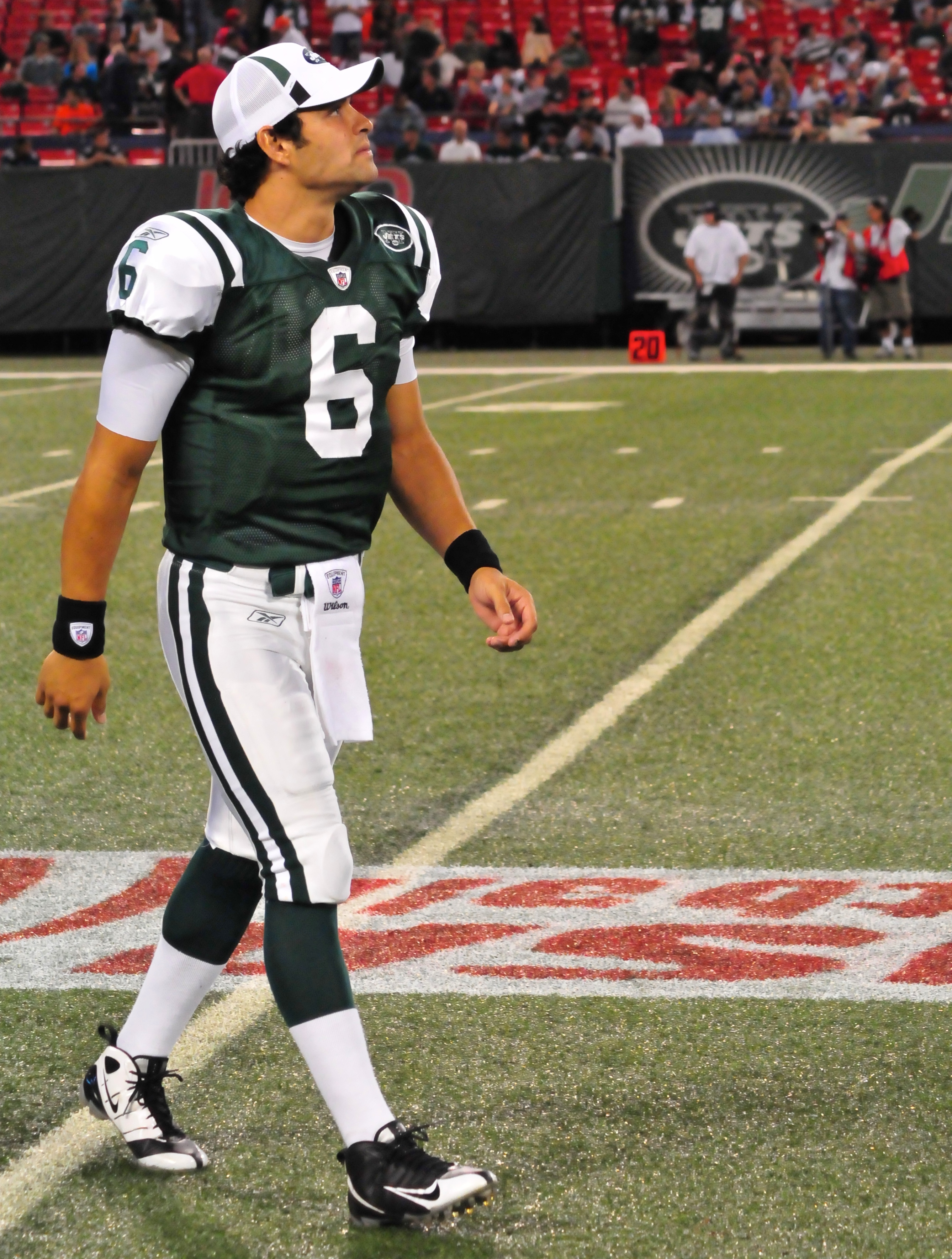 Mark Sanchez in his New York Jets uniform.